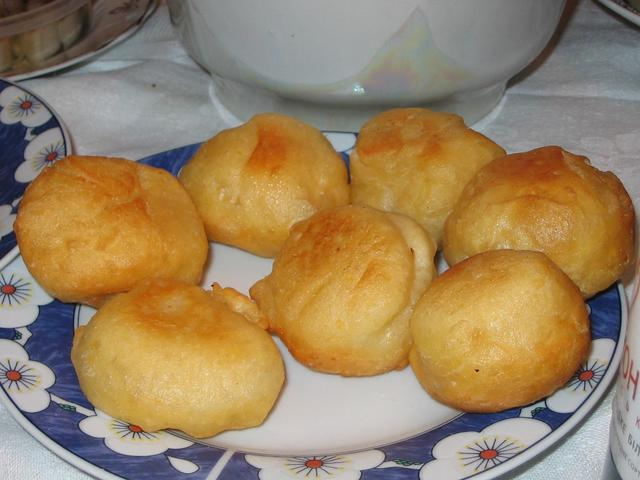 Ukrainian pampushky, plain version (without jam), fried in oil